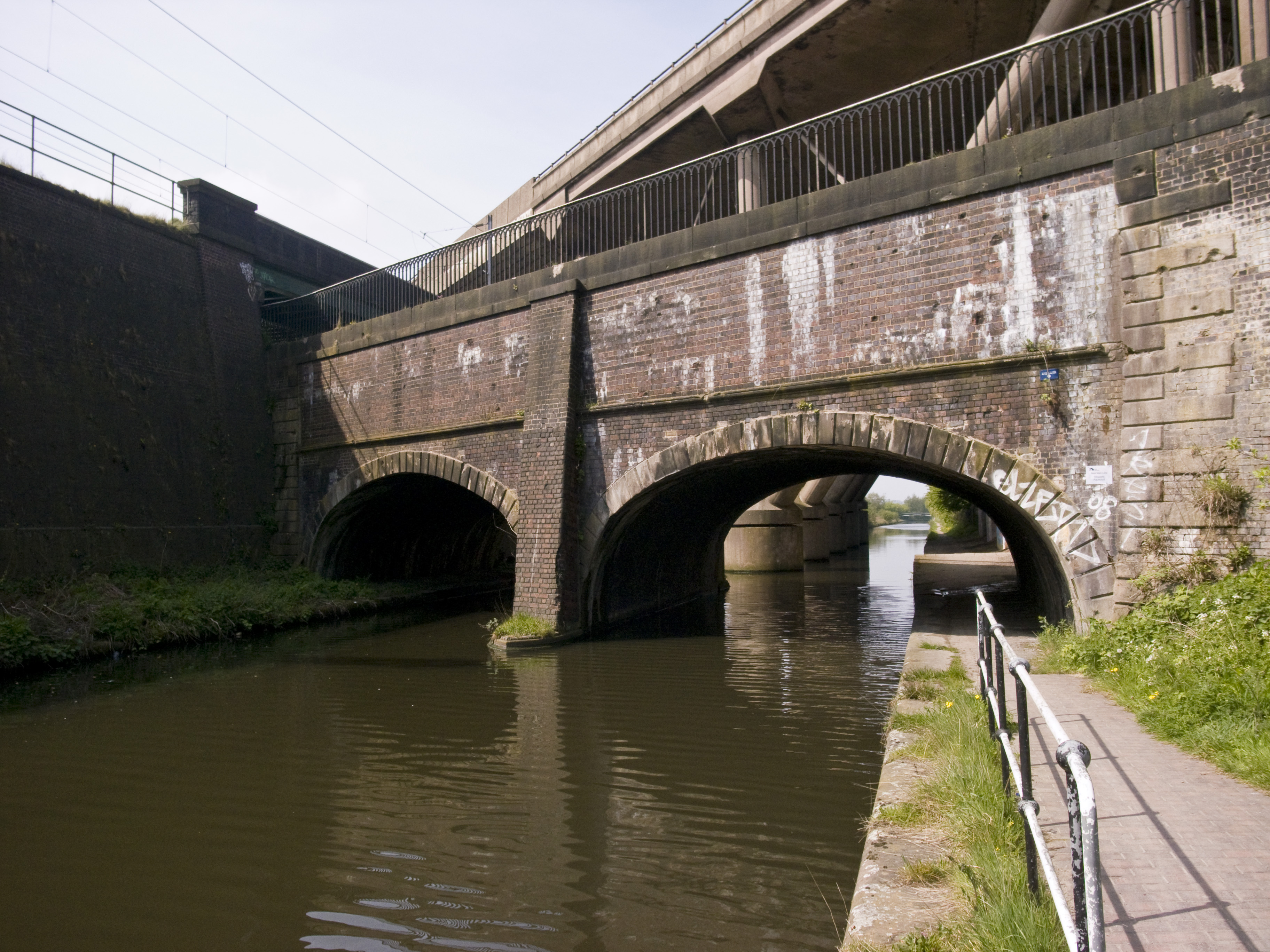 The Stewart Aqueduct, carrying the BCN Old Main Line Canal over the BCN New Main Line Canal (at camera level) in Smethwick, West Midlands (formerly in Staffordshire), England. Alongside and above the New Main Line Canal is the Stour Valley railway section of the West Coast Main Line, all three being bridged by the M5 motorway.